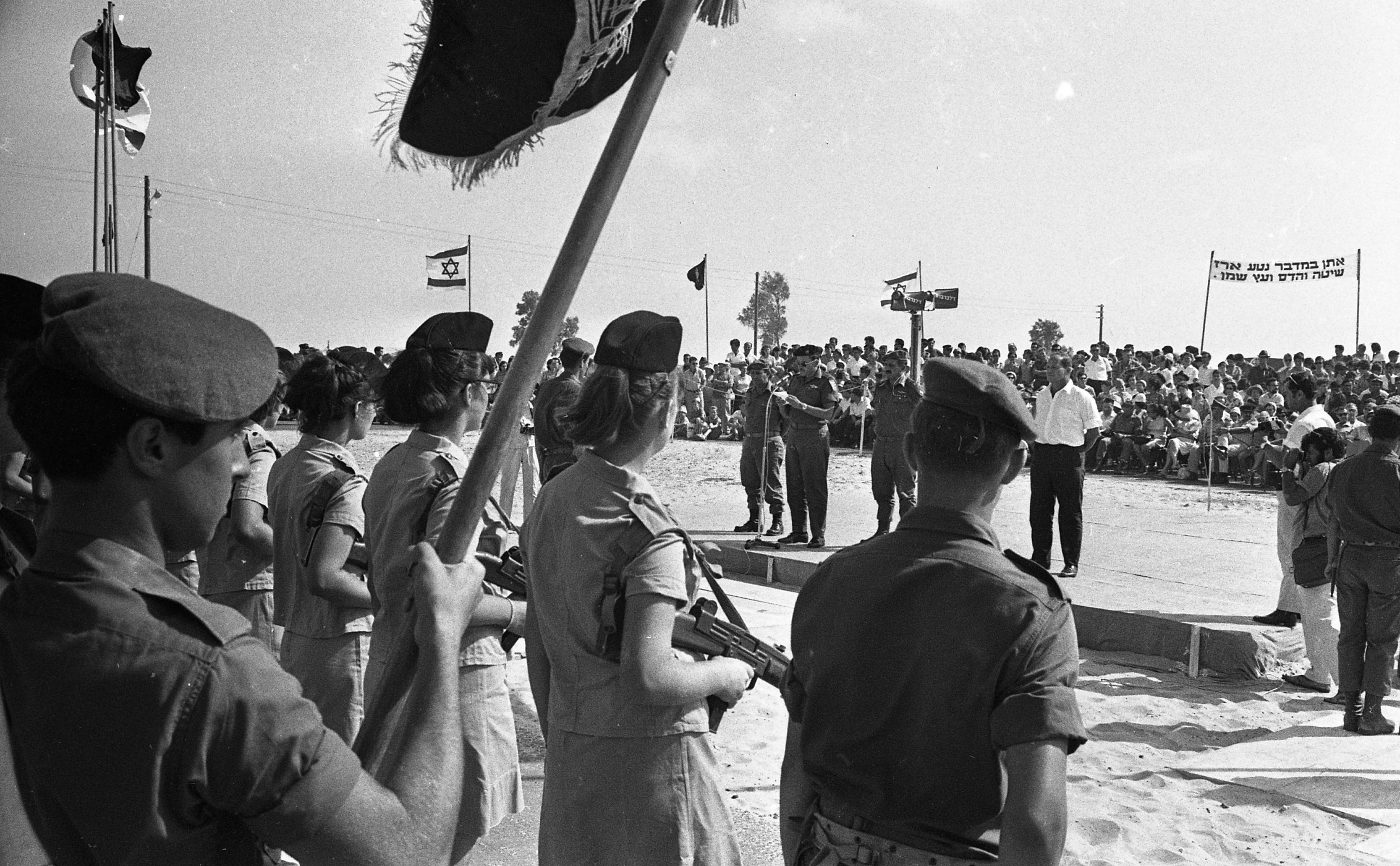 The new Nahal military settlement, Nahal Dikla, was officially founded in north Sinai near the town El-Arish.